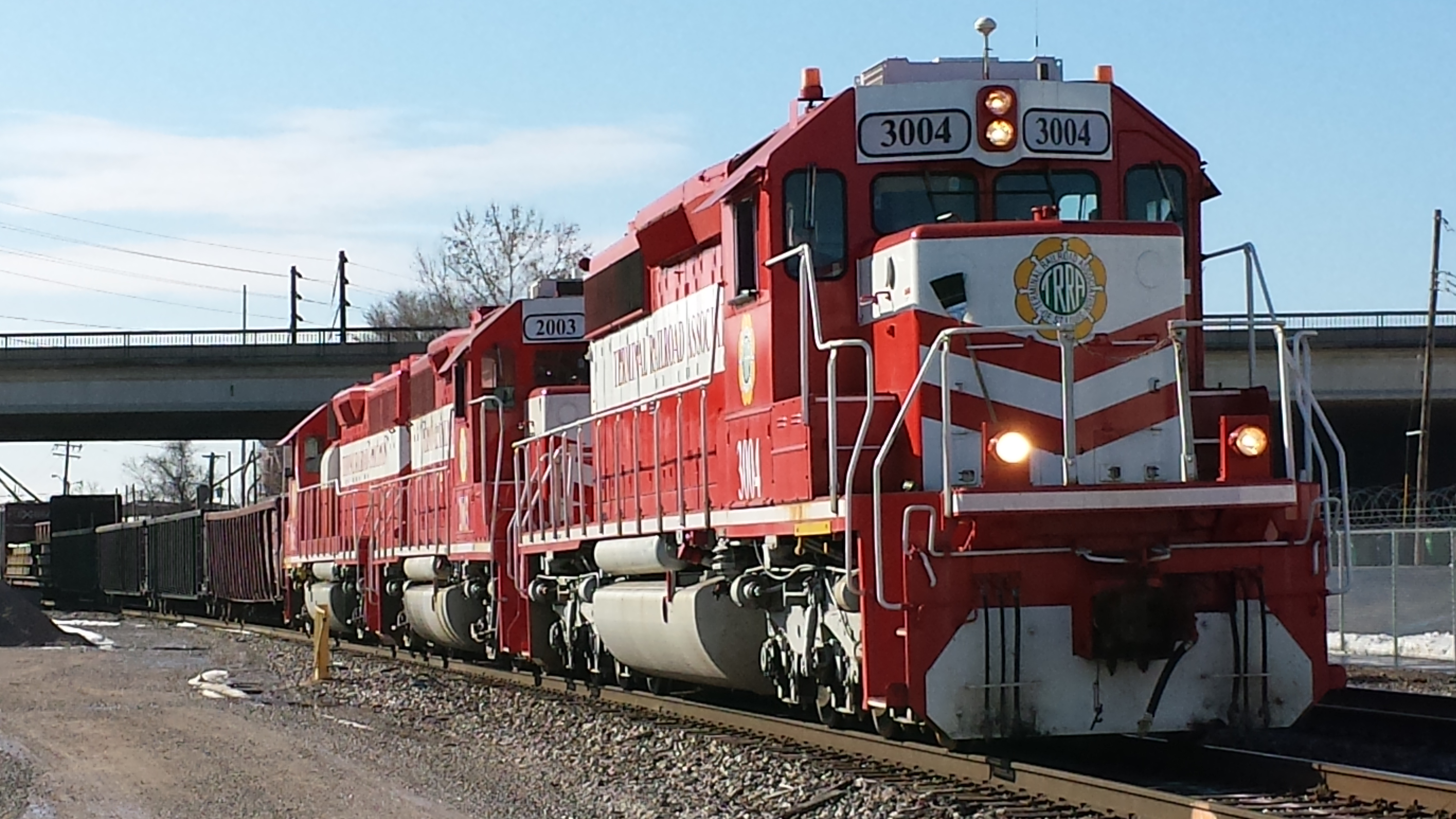 An eastbound Terminal Railroad Association of St. Louis freight train passing under the Hampton Avenue viaduct. Scott Nauert photo